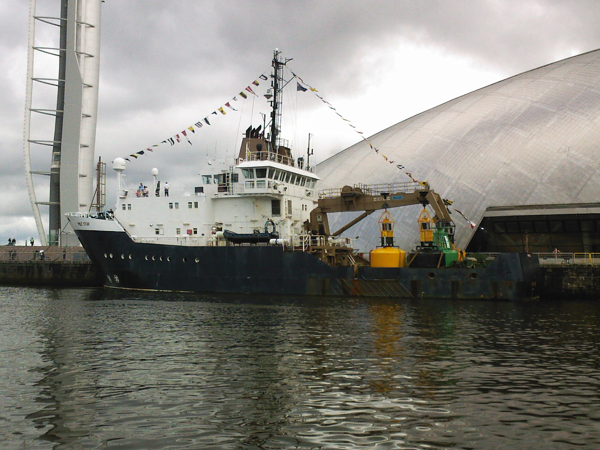 Author: Xtrememachineuk 21:32, 16 July 2007 (UTC) Source: Photo taken myself.